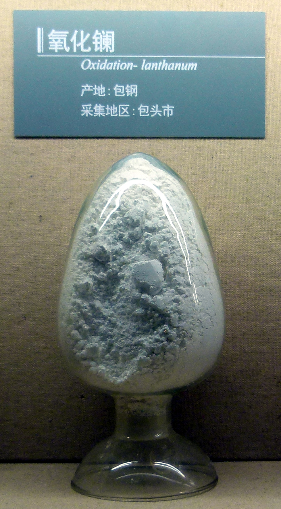 Lanthanum oxide from Baotou, Geology exhibition in Hohhot, Inner Mongolia, china